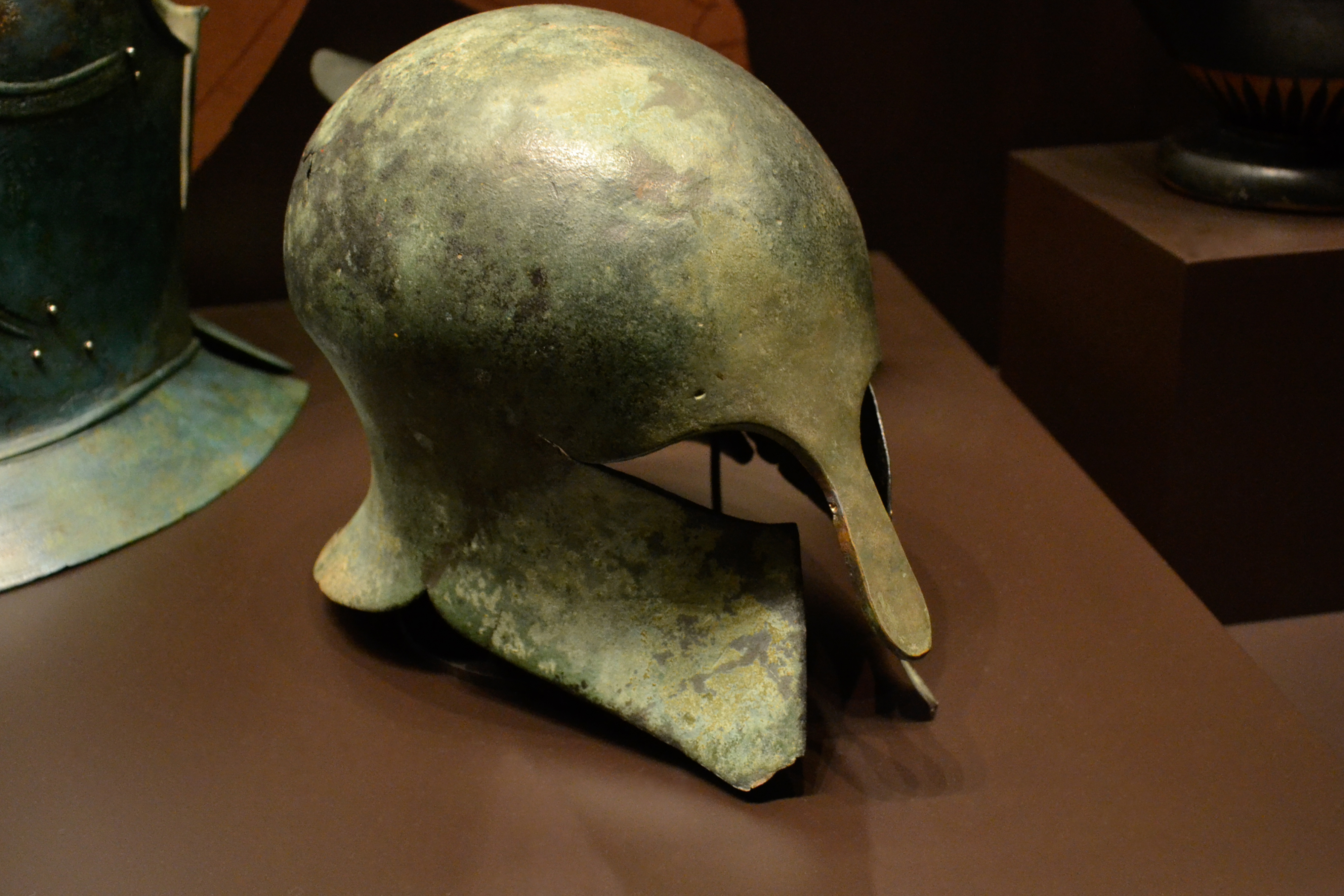 Corinthian bronze helmet. 550 BC. National Archaeological Museum of Spain.